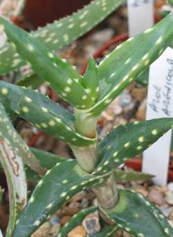 español